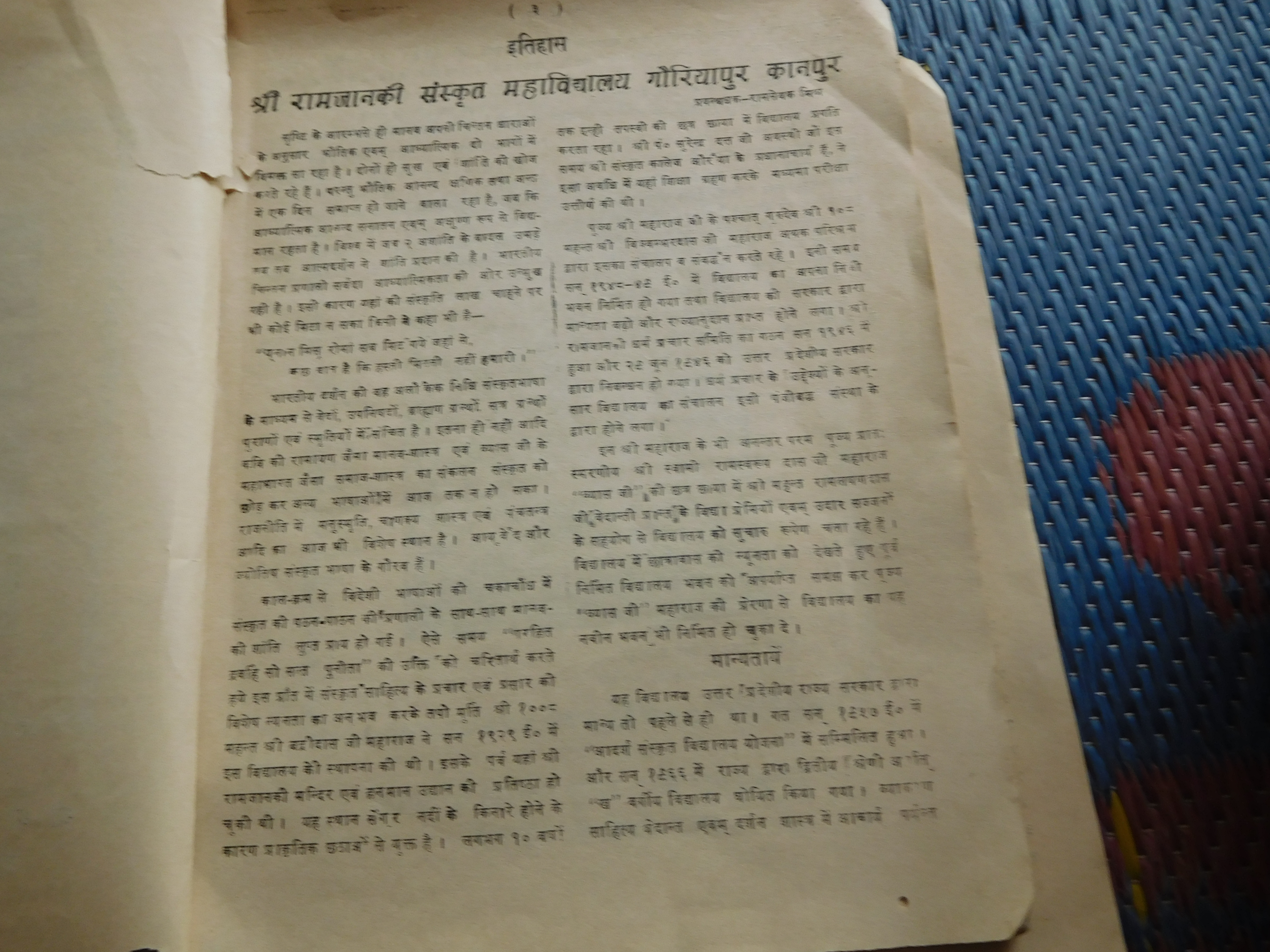 Shri Ram Janki Sanskrit Mahavidyalaya Gauriyapur (History)